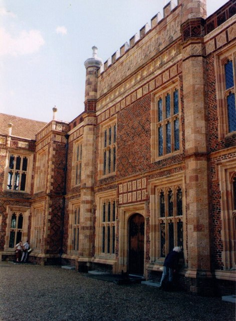 Entrance facade at Sutton Place. Built in the early 16th century.